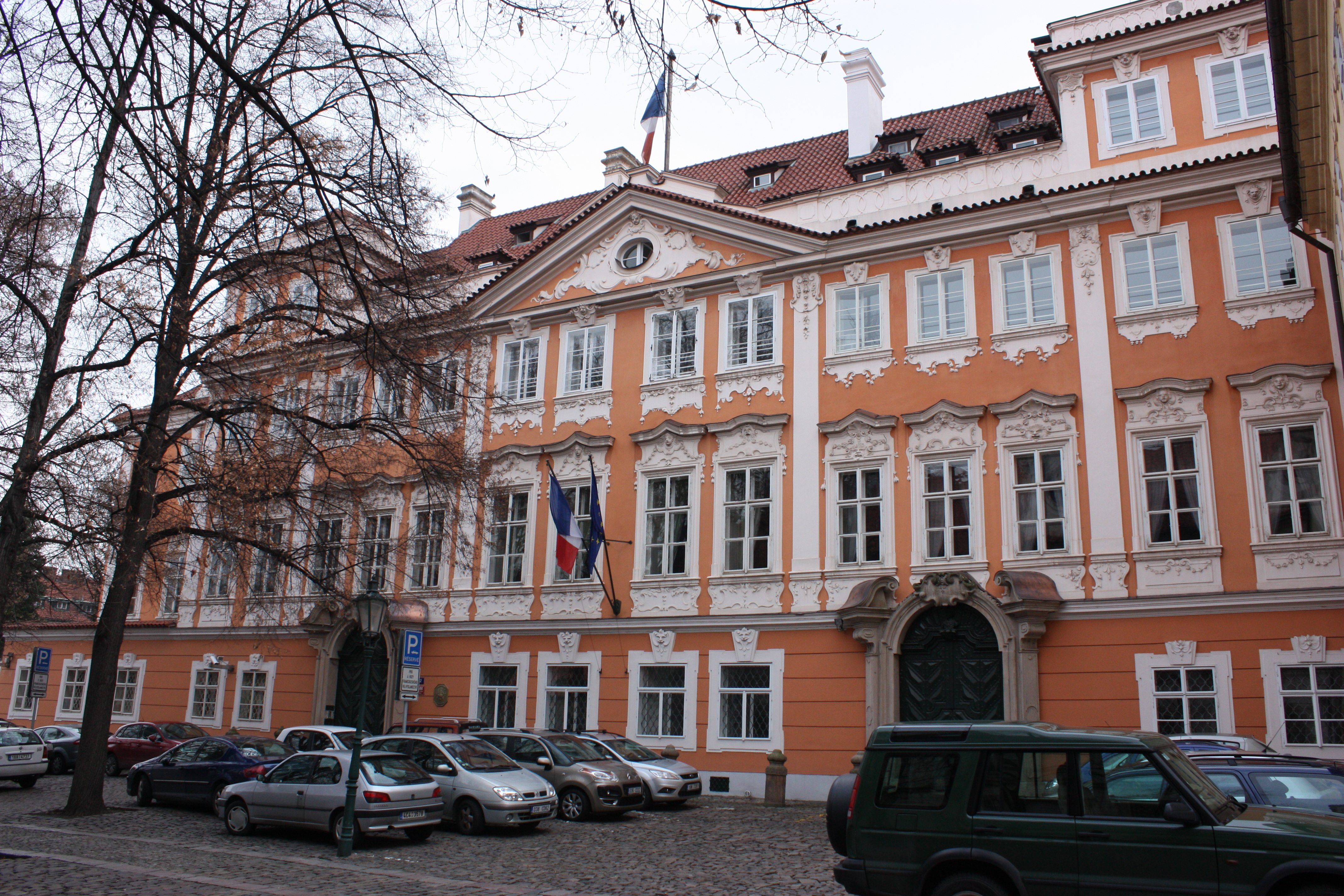 Buquoy Palace in Prague, Malá Strana, French Embassy